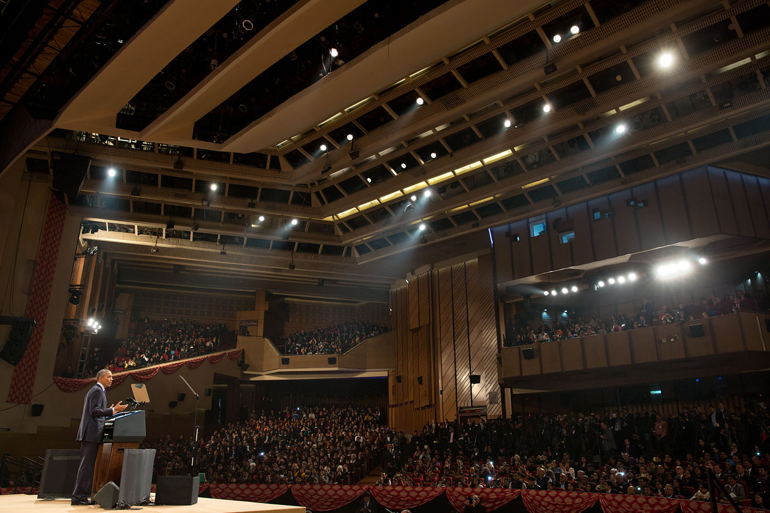 President Obama delivers remarks on India and America at the Siri Fort Auditorium in New Delhi.